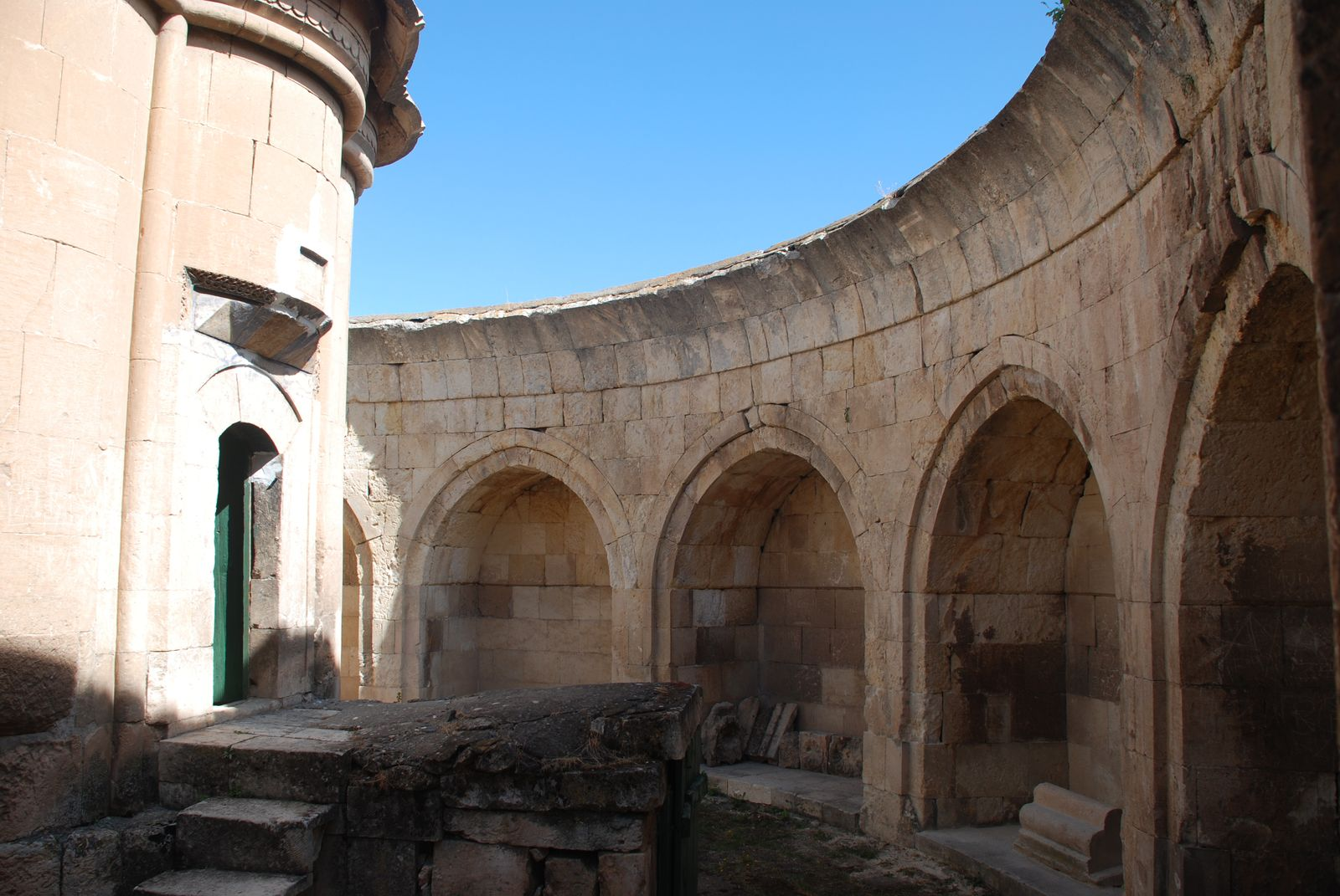 Tercan, Turkey, Türbe, Mama Hatun Kümbeti